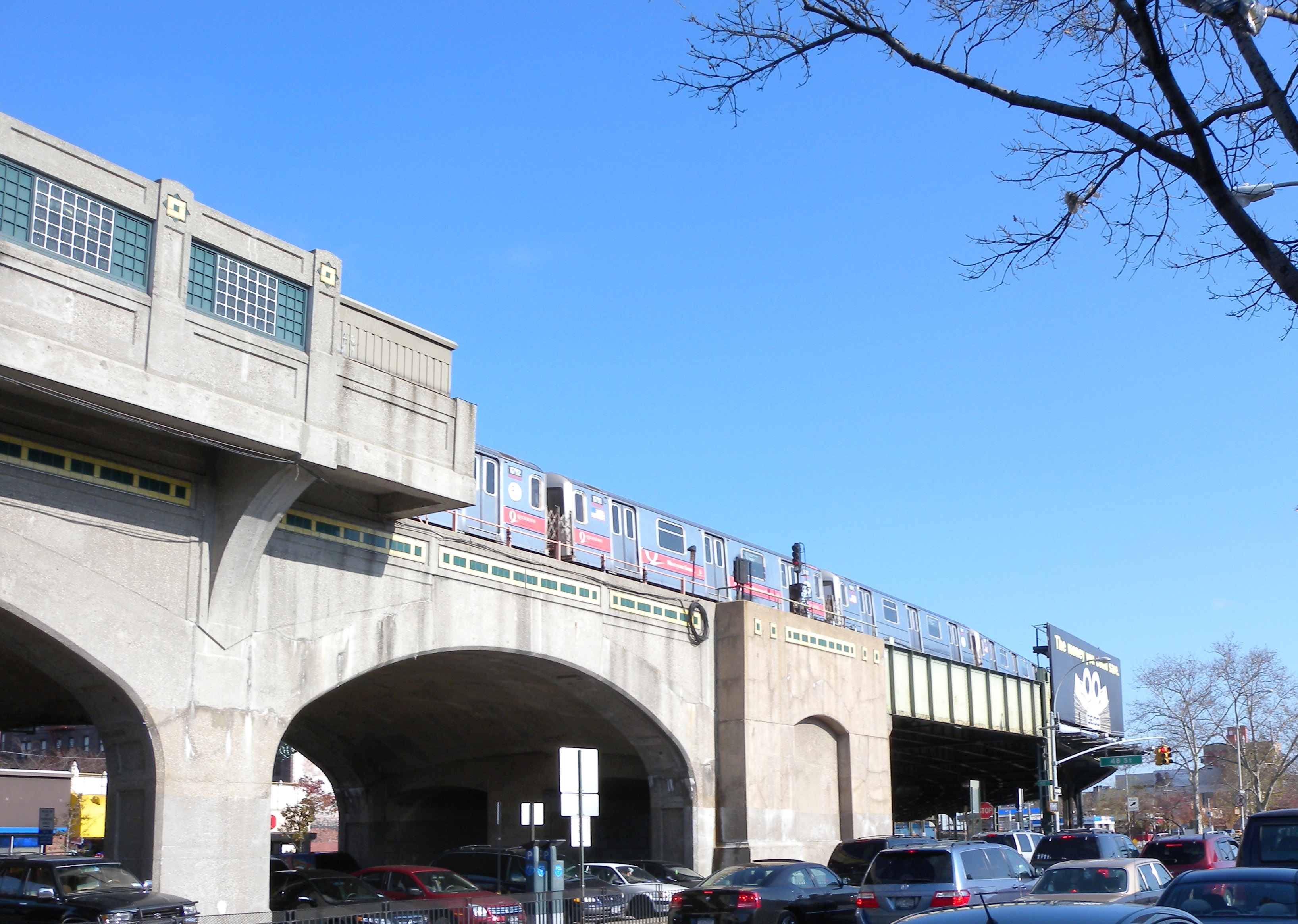 Looking northeast as eastbound train pulls out of en:46th Street – Bliss Street (IRT Flushing Line), leaving the Queens Boulevard concrete viaduct and turning onto tracks over Roosevelt Avenue, heading towards Woodside on a sunny midday.